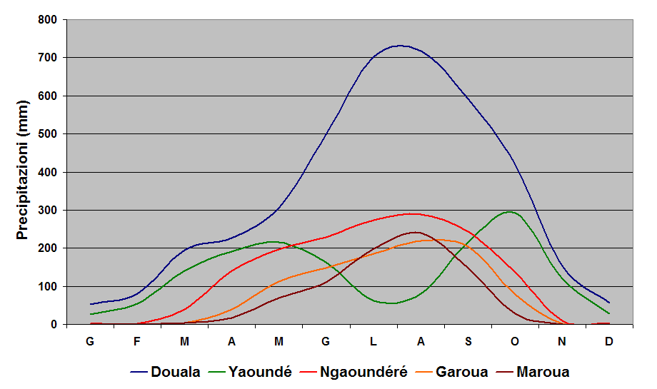 Pluviometric diagram of five localities in Cameroon